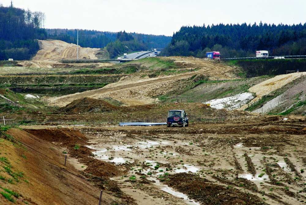 The construction of the Nuremberg-Ingolstadt high-speed railway line in the Kösching Forest, north of Ingolstadt, had a severe impact on nature in that area.